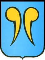 Jankowice COA